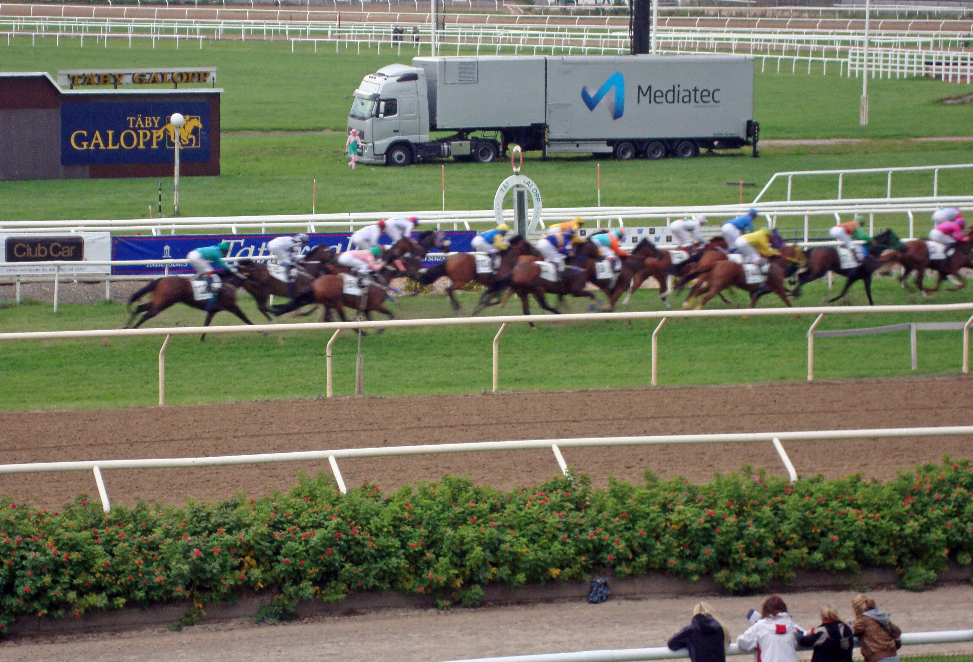 Thoroughbred horses at the finish of a race at Täby Racecourse. September 2010.